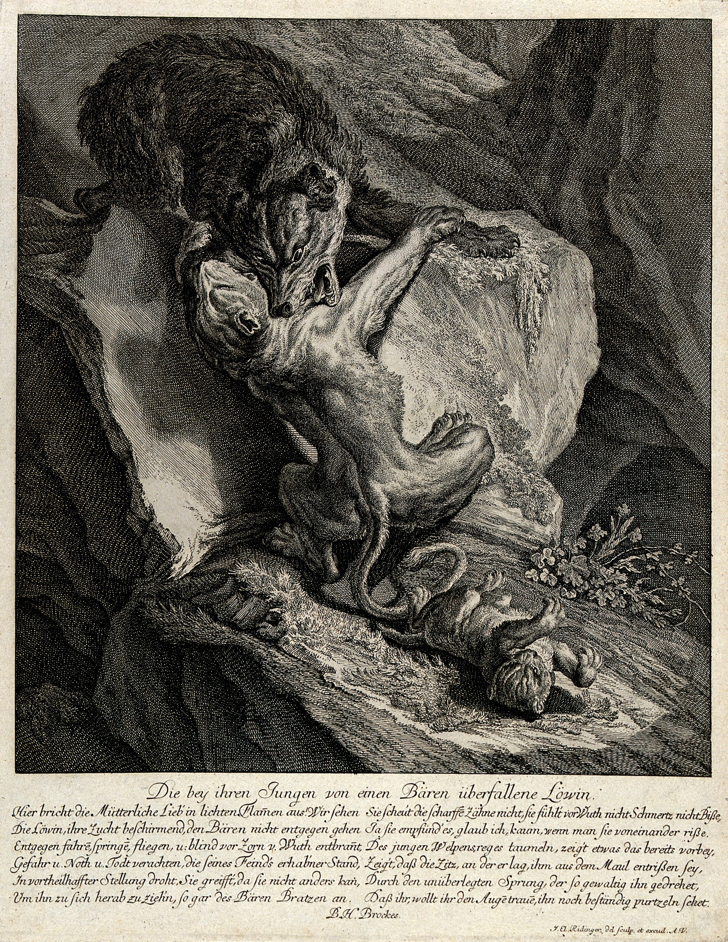 A bear and a lioness are fighting on a crag in the mountains with the lion cub tumbling off the rock. Etching by J.E. Ridinger. Iconographic Collections Keywords: Barthold Heinrich Brockes; Johann Elias Ridinger